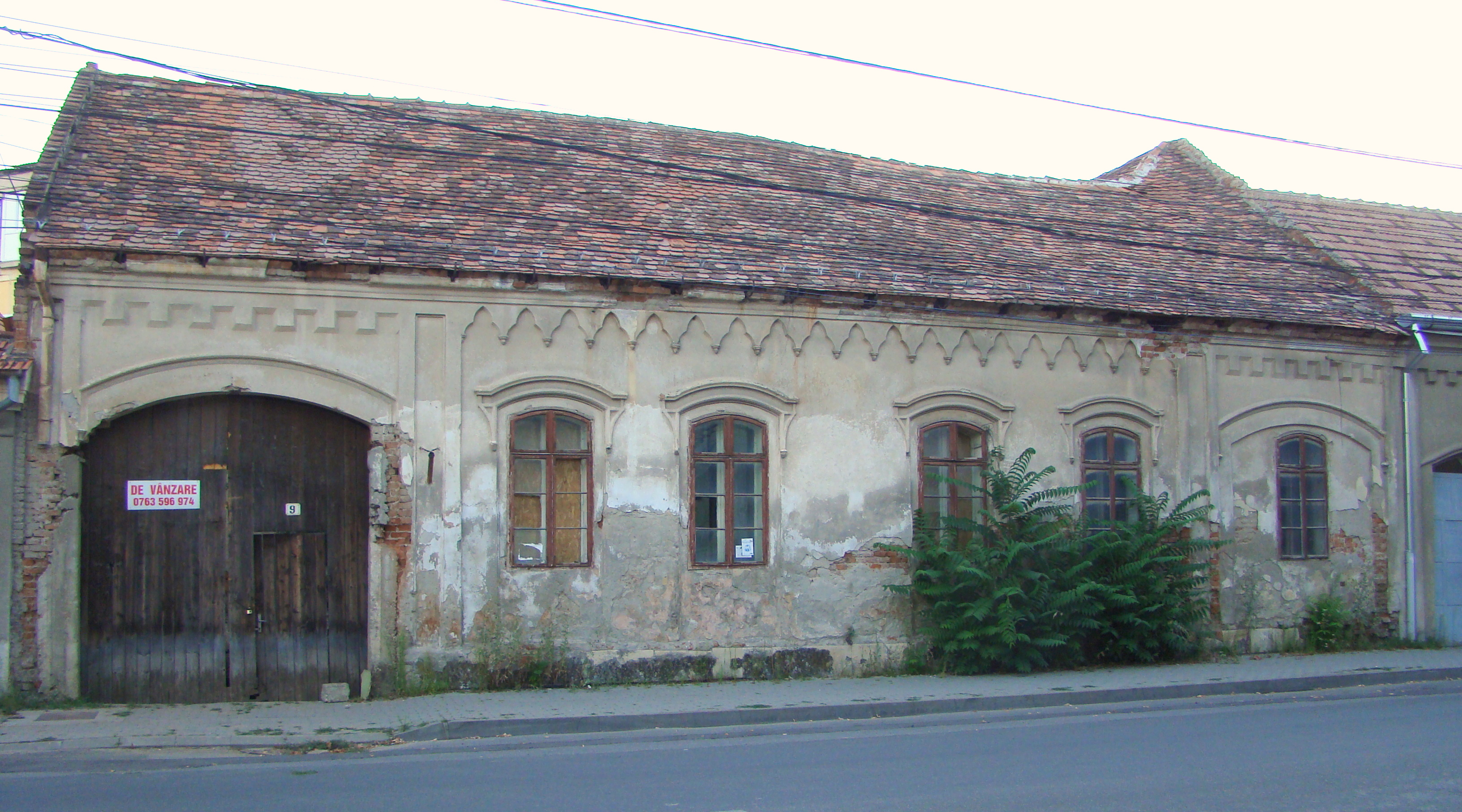 House, historic monument, Teilor street, number 9, Alba Iulia, Alba county, Romania